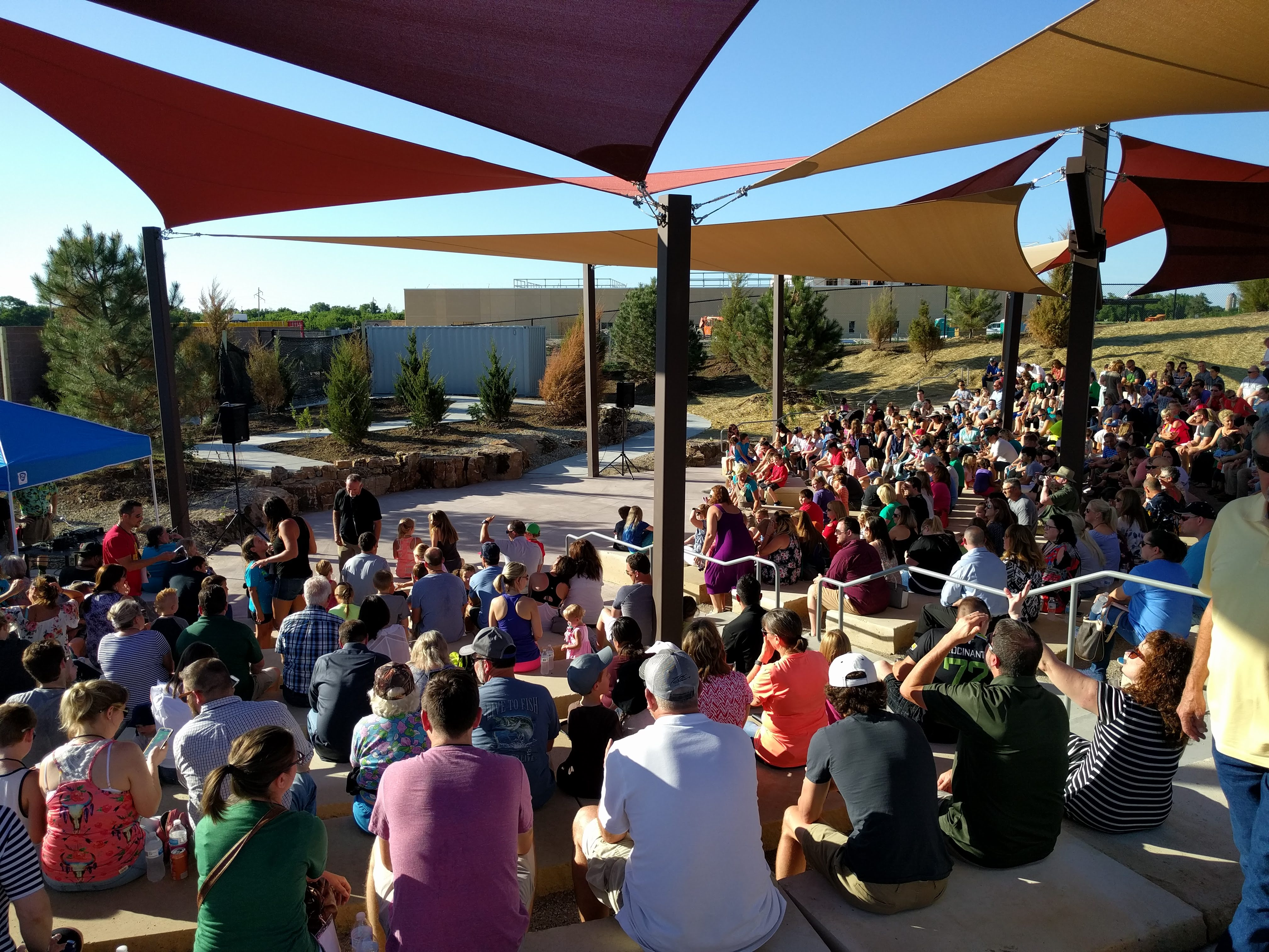 Crowds await the start of the T-Rex Feeding Frenzy